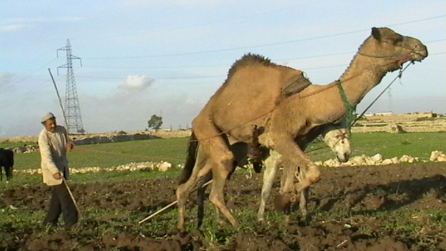 Ploughing with a camel and a mule Walon: Tcherwaedje avou on chamo et on moulet